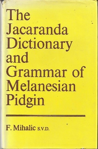 Dictionary and Grammar of Melanesian Pidgin